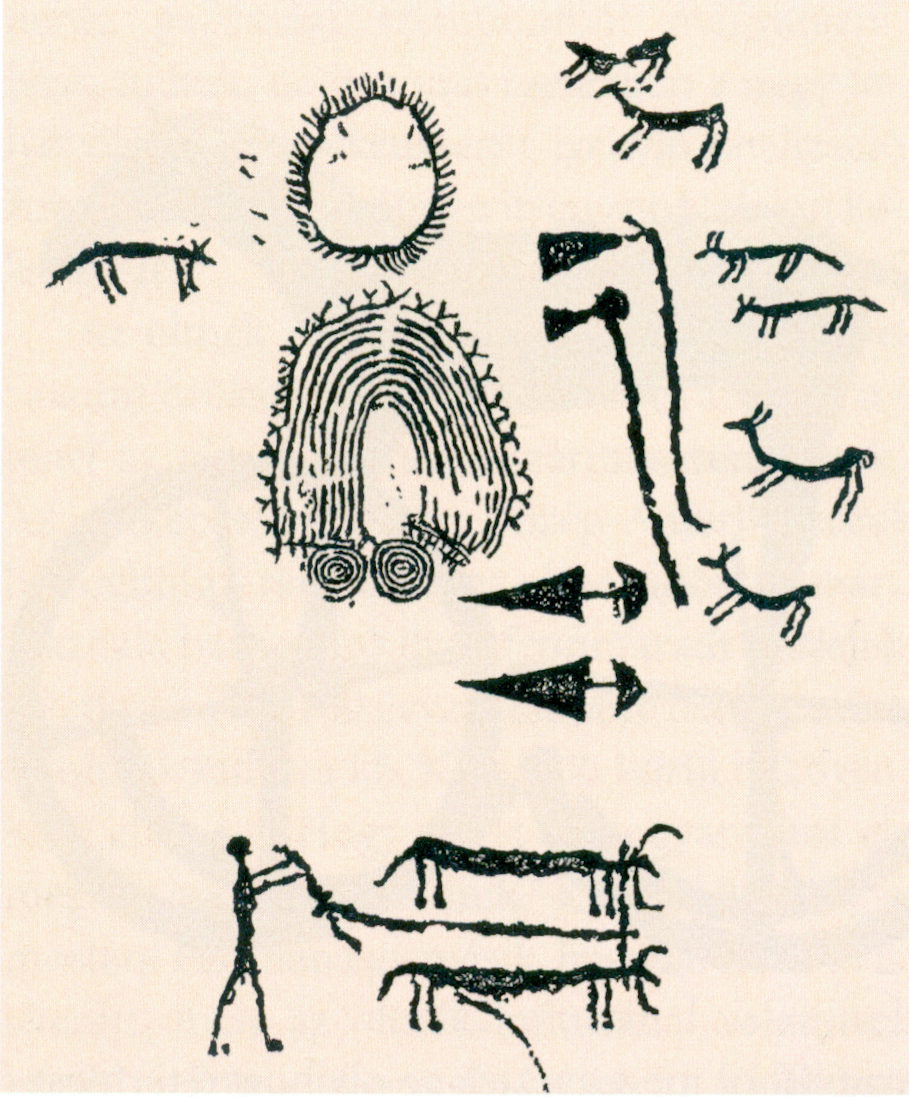 The first known representation of a plow